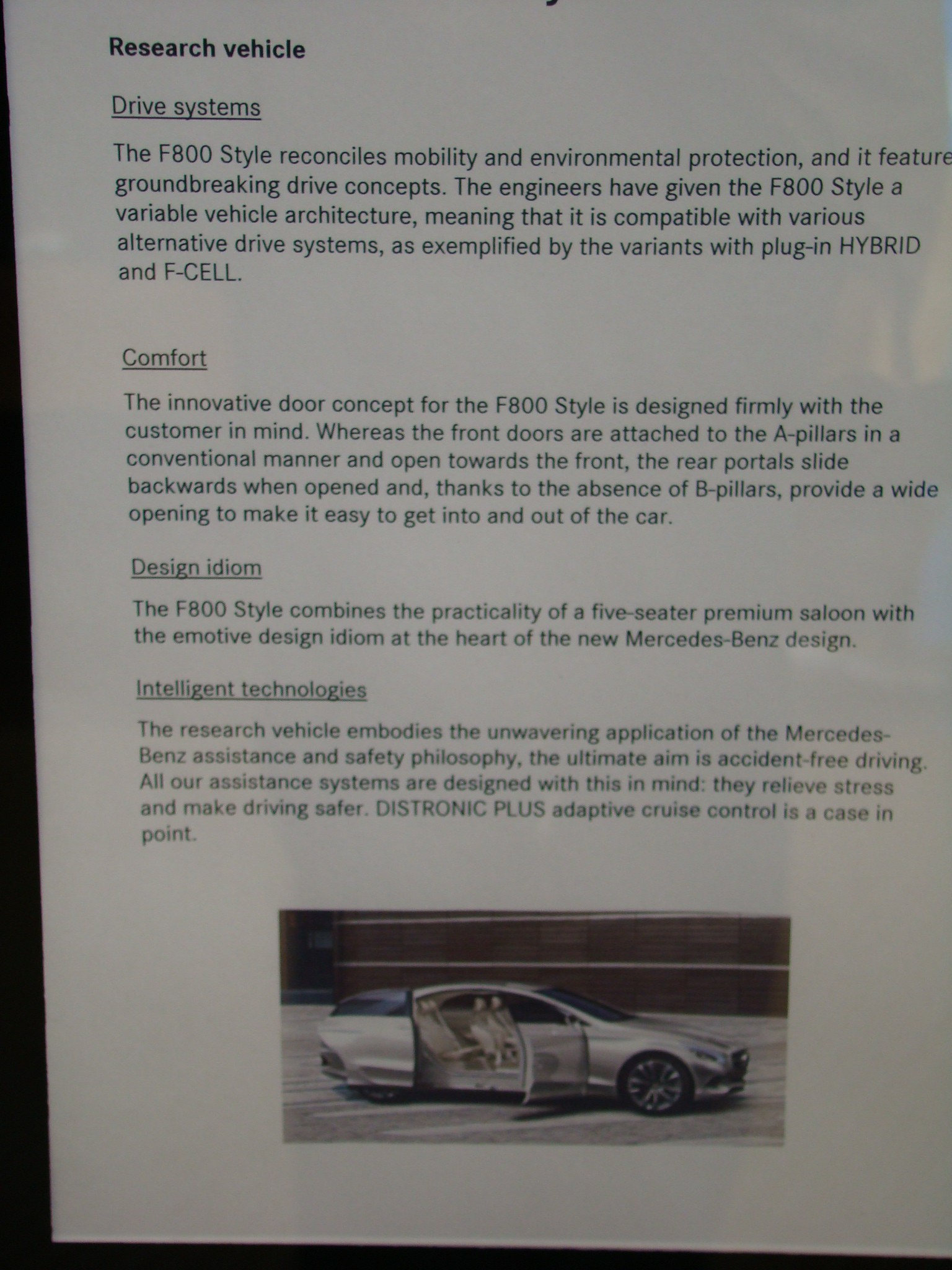 Mercedes-Benz F800